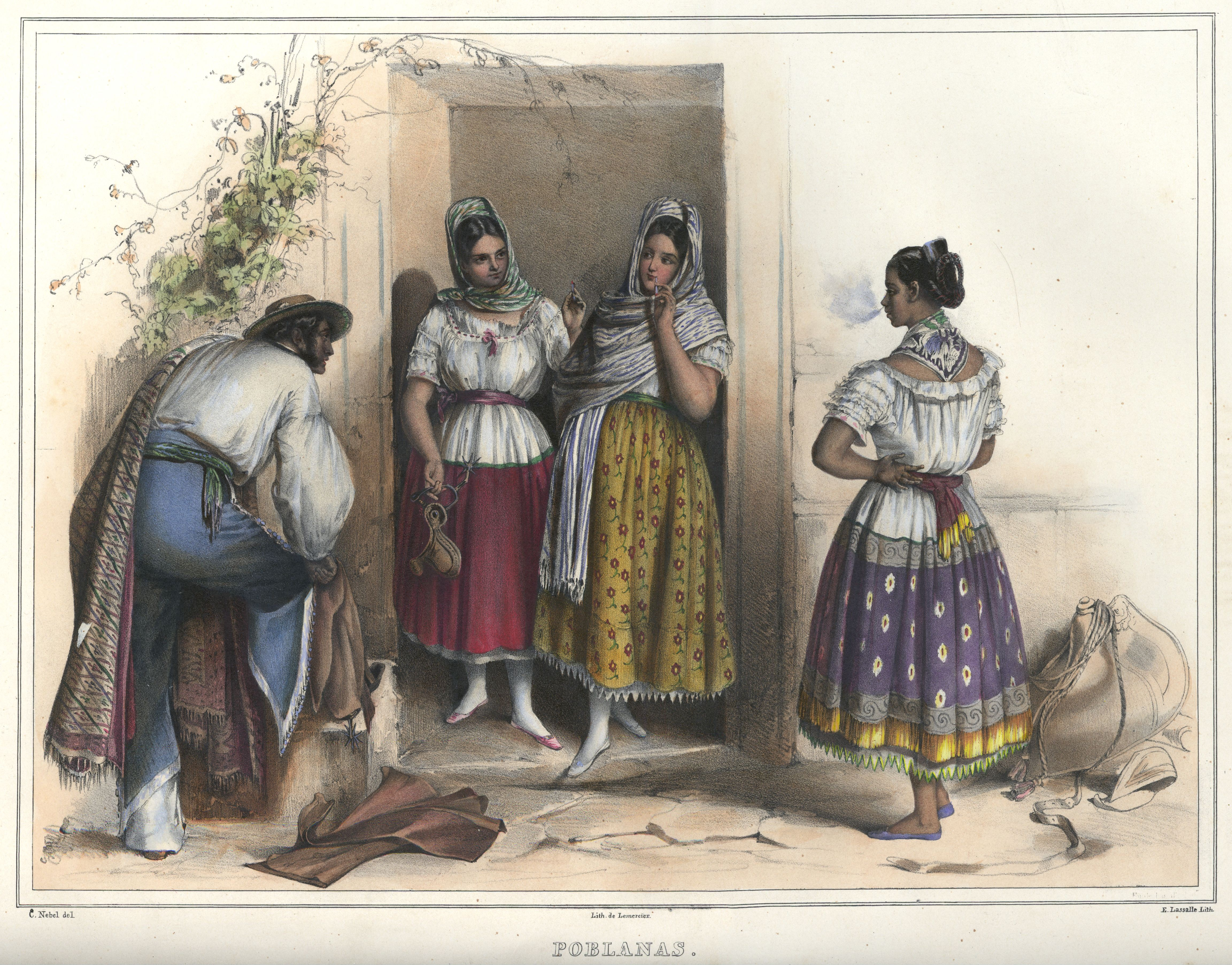 Costume group; one man and three young women. Hand-colored lithograph highlighted with gum arabic. Original size (neat lines): 37.8×27.9 cm.